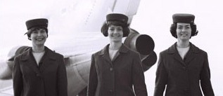 1960ies Lufthansa Stewardess in front of a Boeing 727.